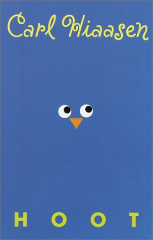 Cover of the American novel Hoot